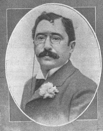 Spanish Journalist Mariano de Cavia